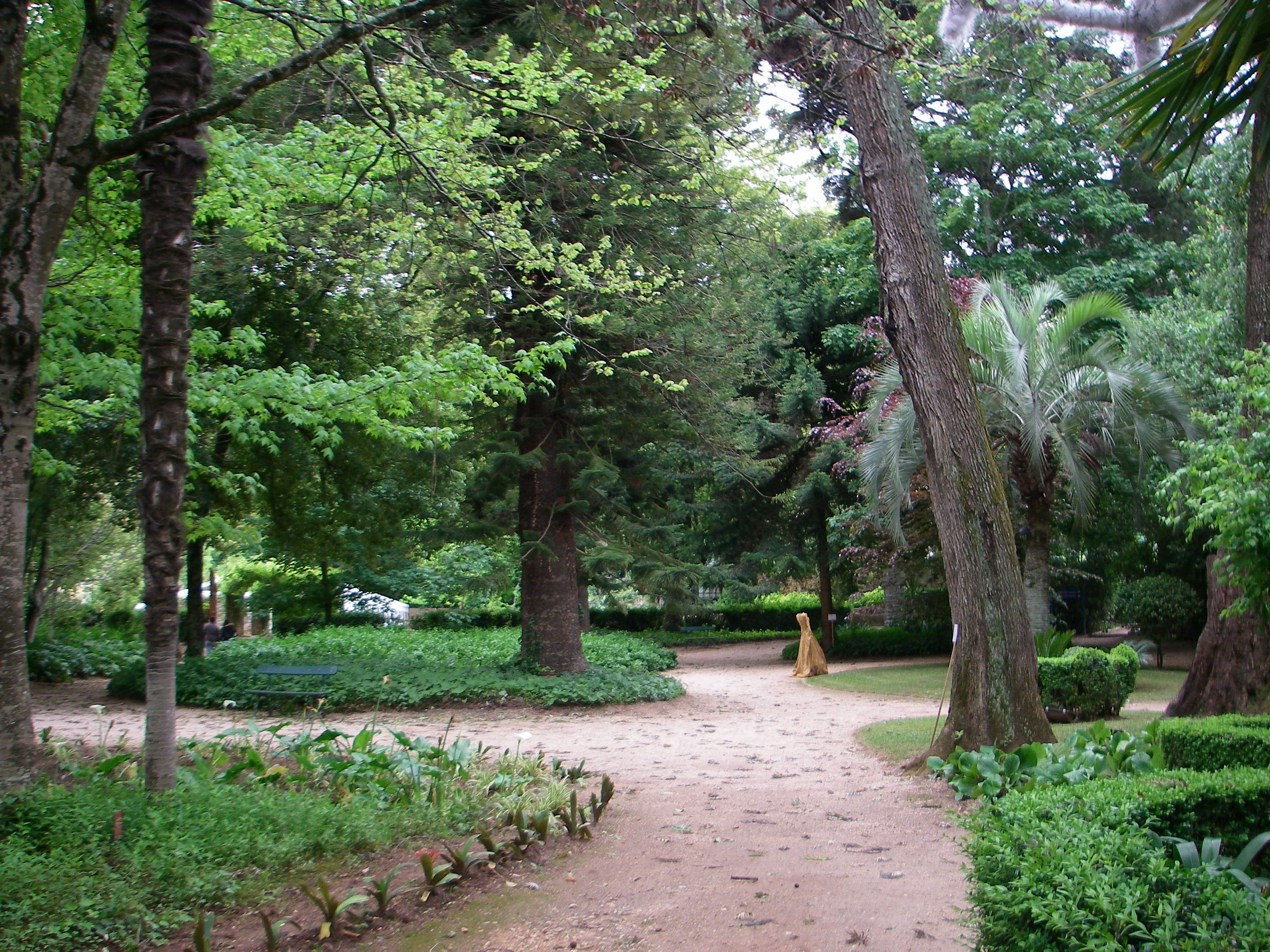 This file was uploaded for Wiki Loves Monuments in Portugal with the unique identifier 73803.